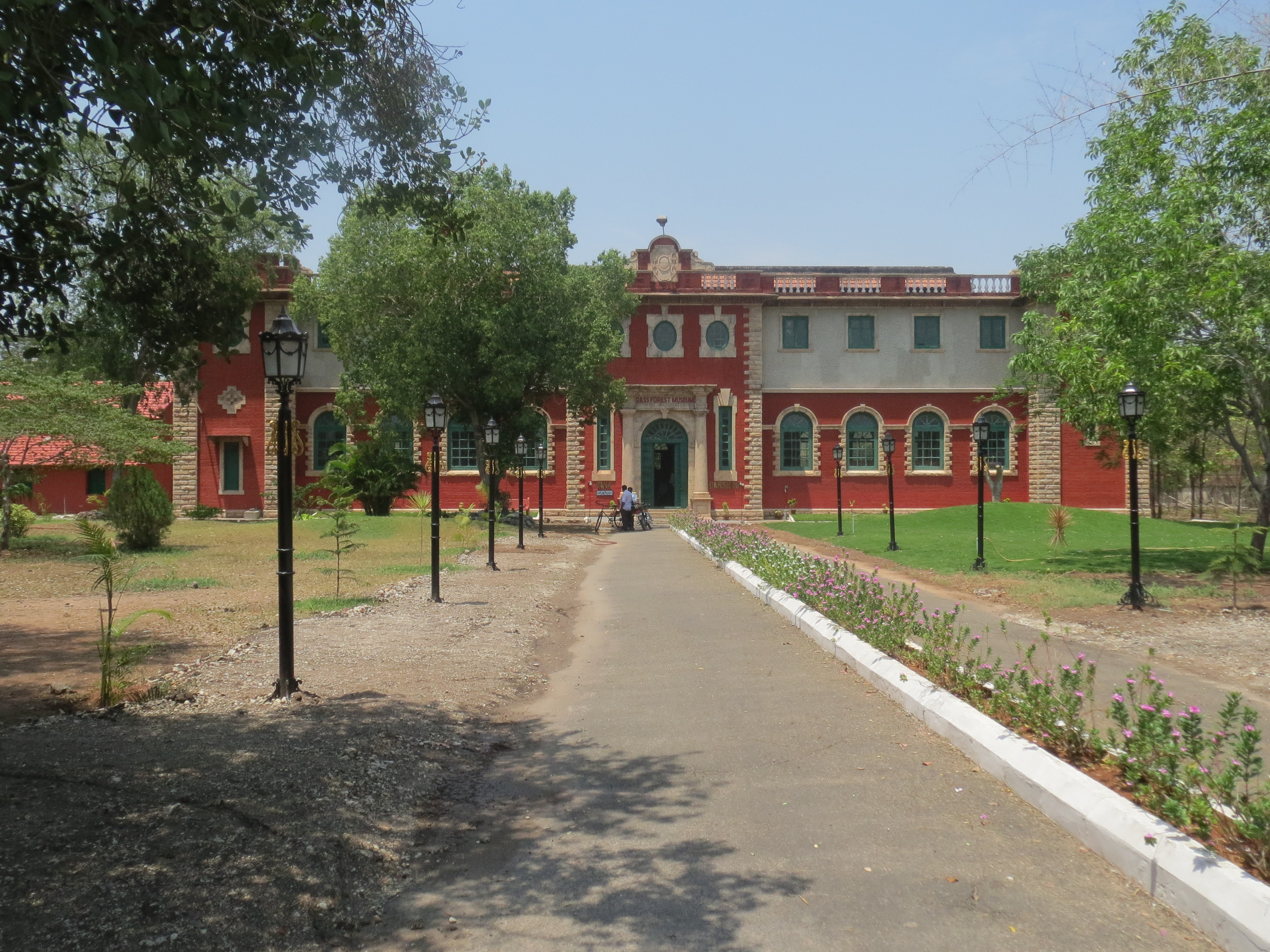 Front view of Gass Forest Museum in Coimbatore, Tamil Nadu, India.